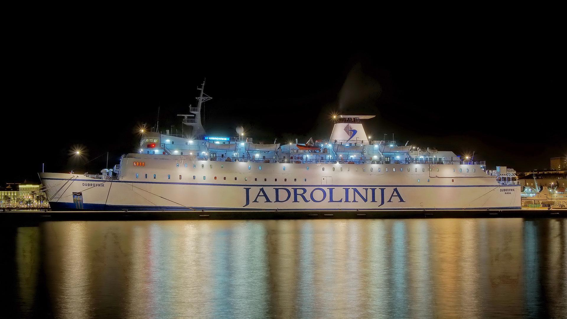 Dubrovnik (ship, 1979) IMO 7615048, in Split, 2013-01-03 (1), prior to departing to Ancona Space-time coordinates of the ship: Jan 3, 2013; CET 20:29:06; N 43°30'11", E 16°26'19".